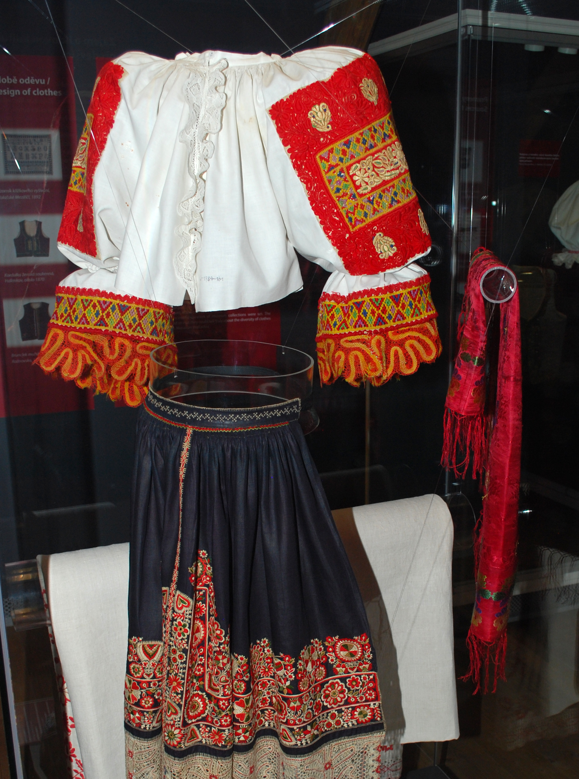 Ornate feminine wedding dress